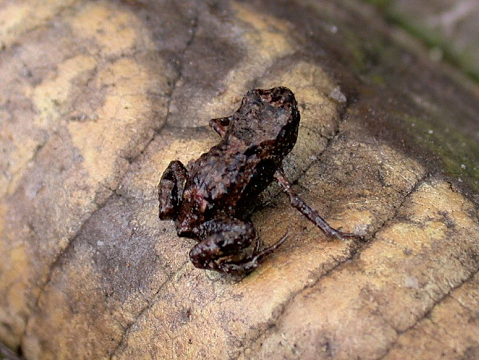 Portrait of paratype of Paedophryne kathismaphlox (BPBM 17976) in life.